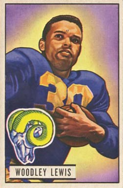 American football player Woodley Lewis on a 1951 Bowman card.